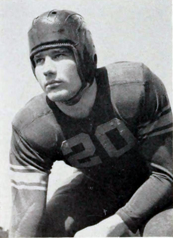 Sid Tinsley